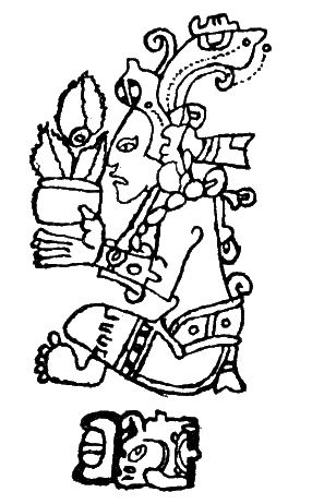 Yum Kaax, Lord of the Harvest